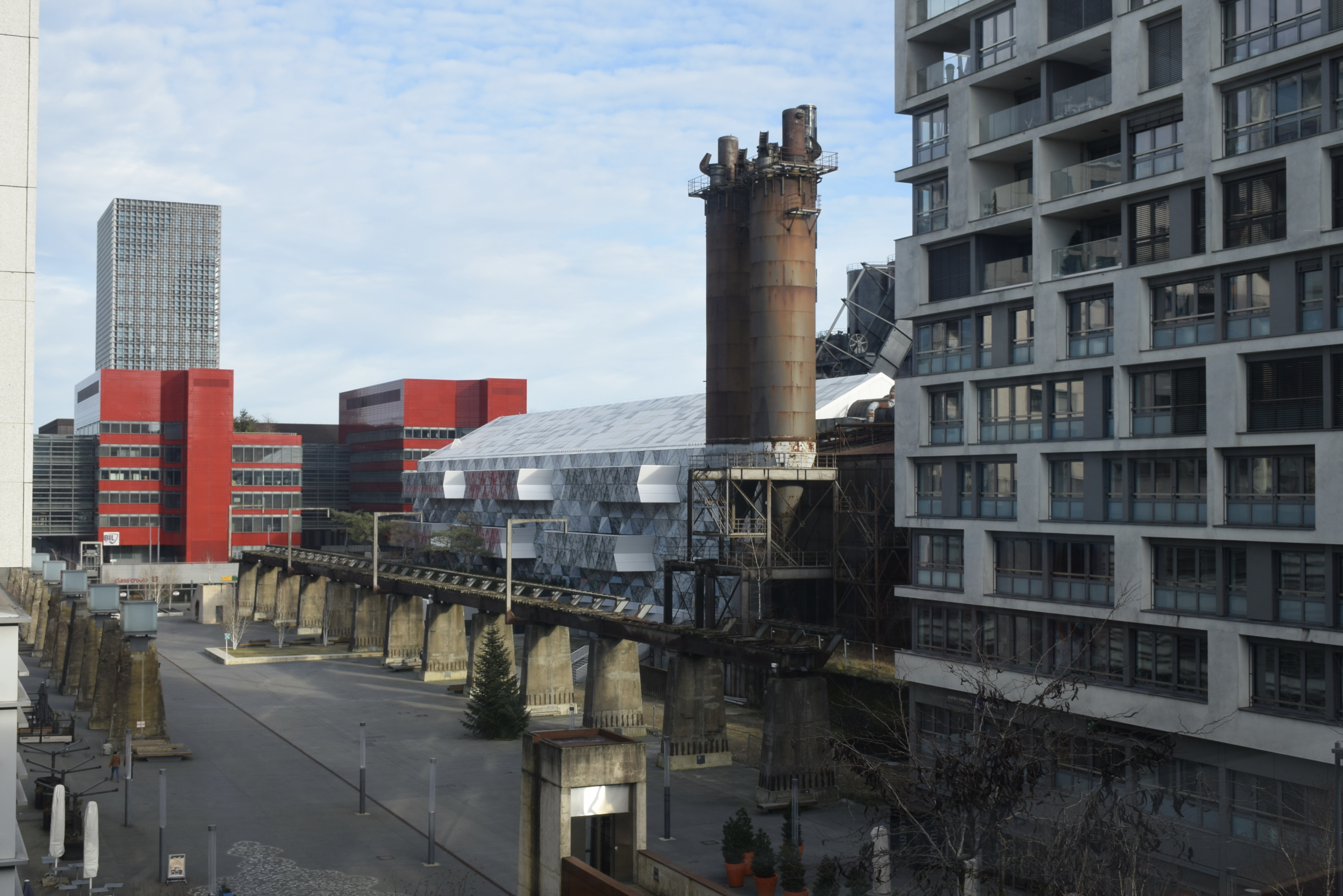 Belval, Luxembourg: Place de l'Académie, northwards view.